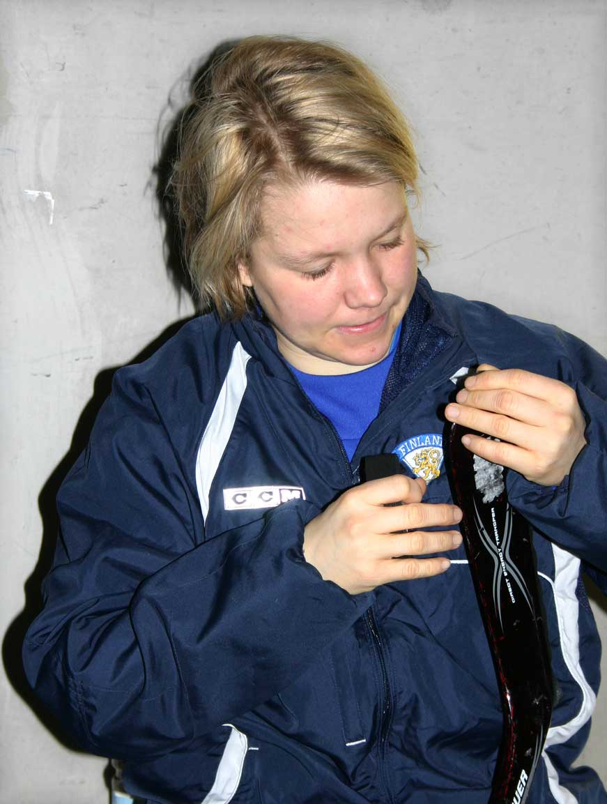 Emma Laaksonen